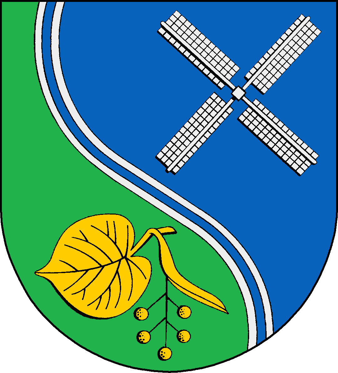 Coat of arms of the municipality Dammfleth in Schleswig-Holstein, Germany.